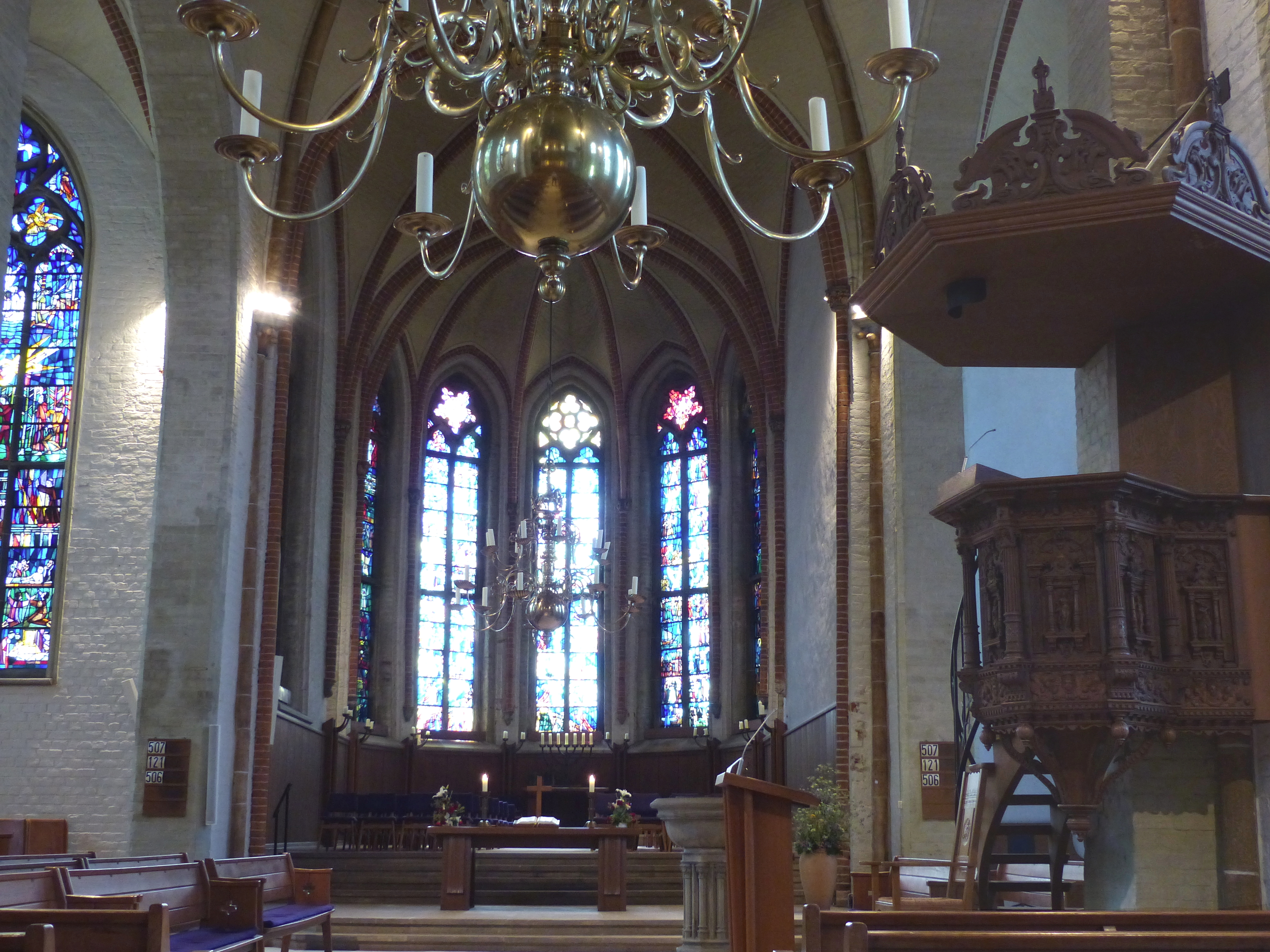 St. Martini, Bremen: altar, pulpit and part of the northern aisle